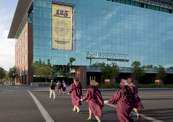 Fulton Center, home of the ASU Foundation for A New American University